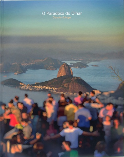 Claudio Edinger's book cover "O Paradoxo do Olhar"